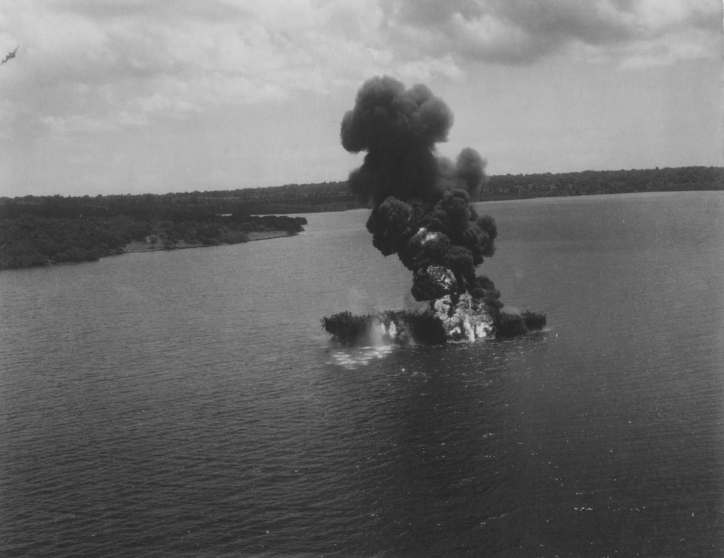 Beaufighters of No. 31 Squadron RAAF attacking an oil barge at Tenau Harbour on the 31st March 1944. The pilot was Flight Lieutanant J. A. L. Archer